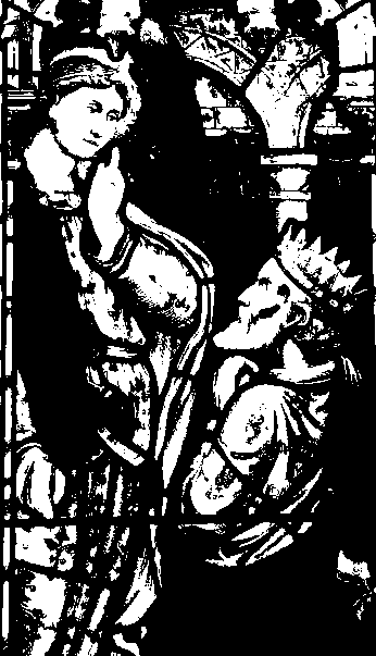 Drawing of an old Window showing Gwynllyw Kneeling Before an Angel.